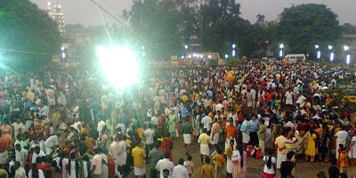 Easter Morning at Piravom Cathedral